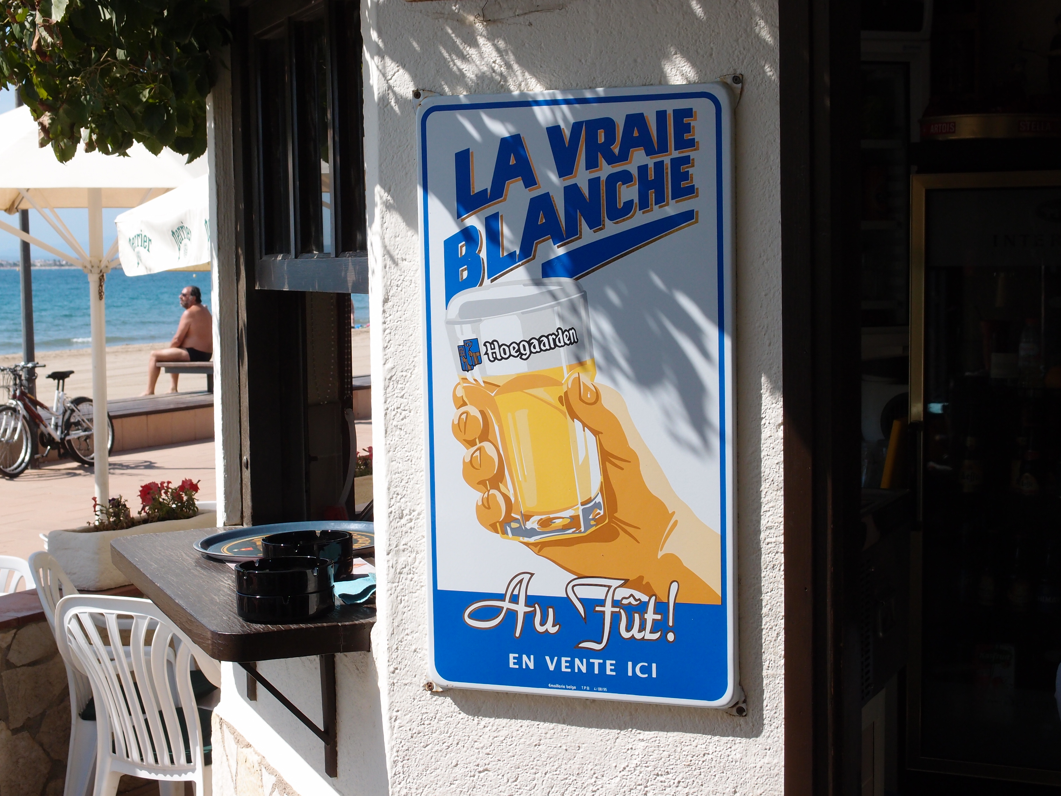 Hoegaarden Außenwerbung in Roses / Katalonien / Spanien Datum: 15.09.2011 Urheber: M. Pfeiffer alias Gordito1869 Quelle: Privates Fotoarchiv des Urhebers